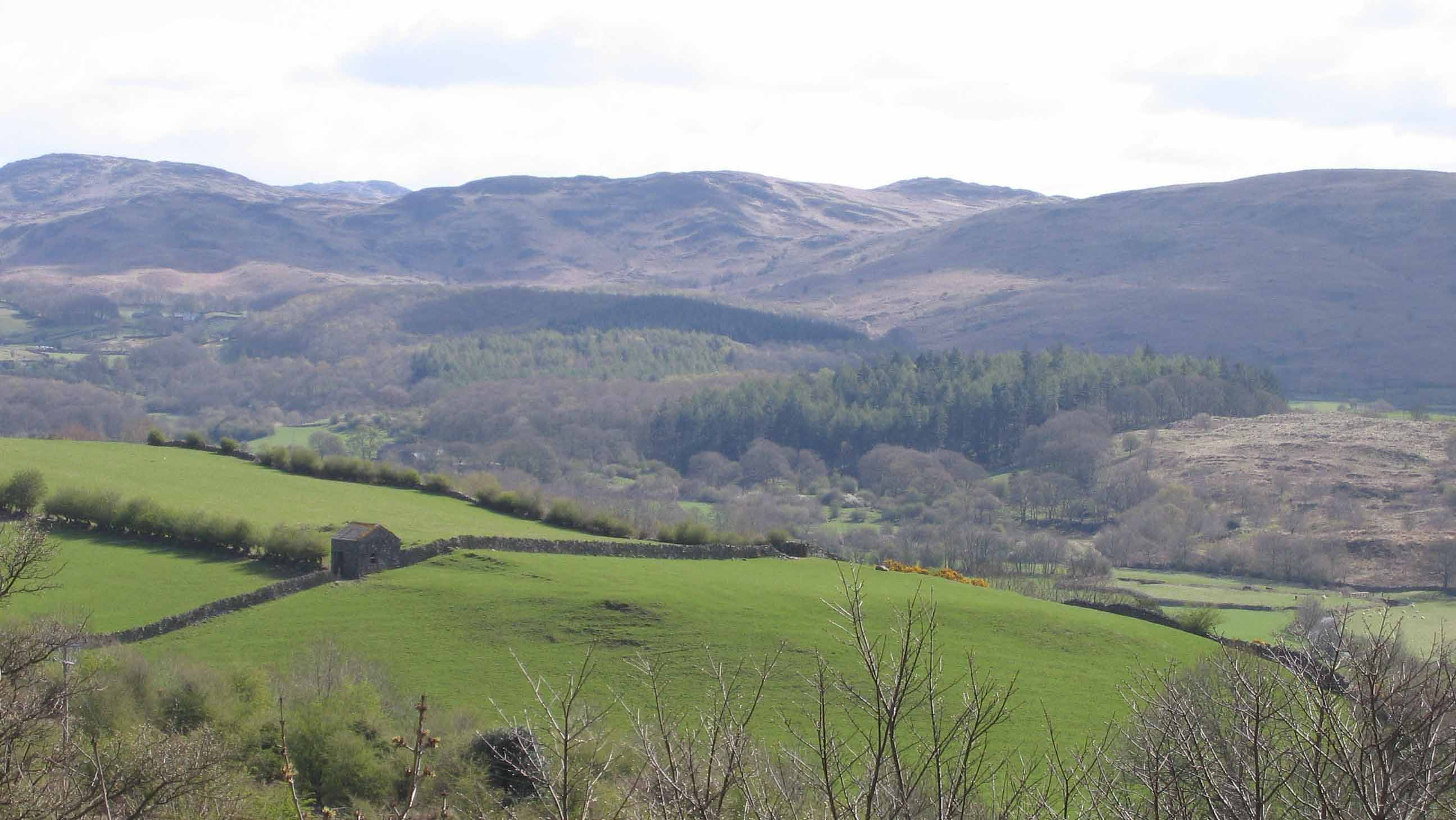 Panoramic view of the valley in which the dispersed hamlet of Woodland lies in Cumbria on 28 April 2006.